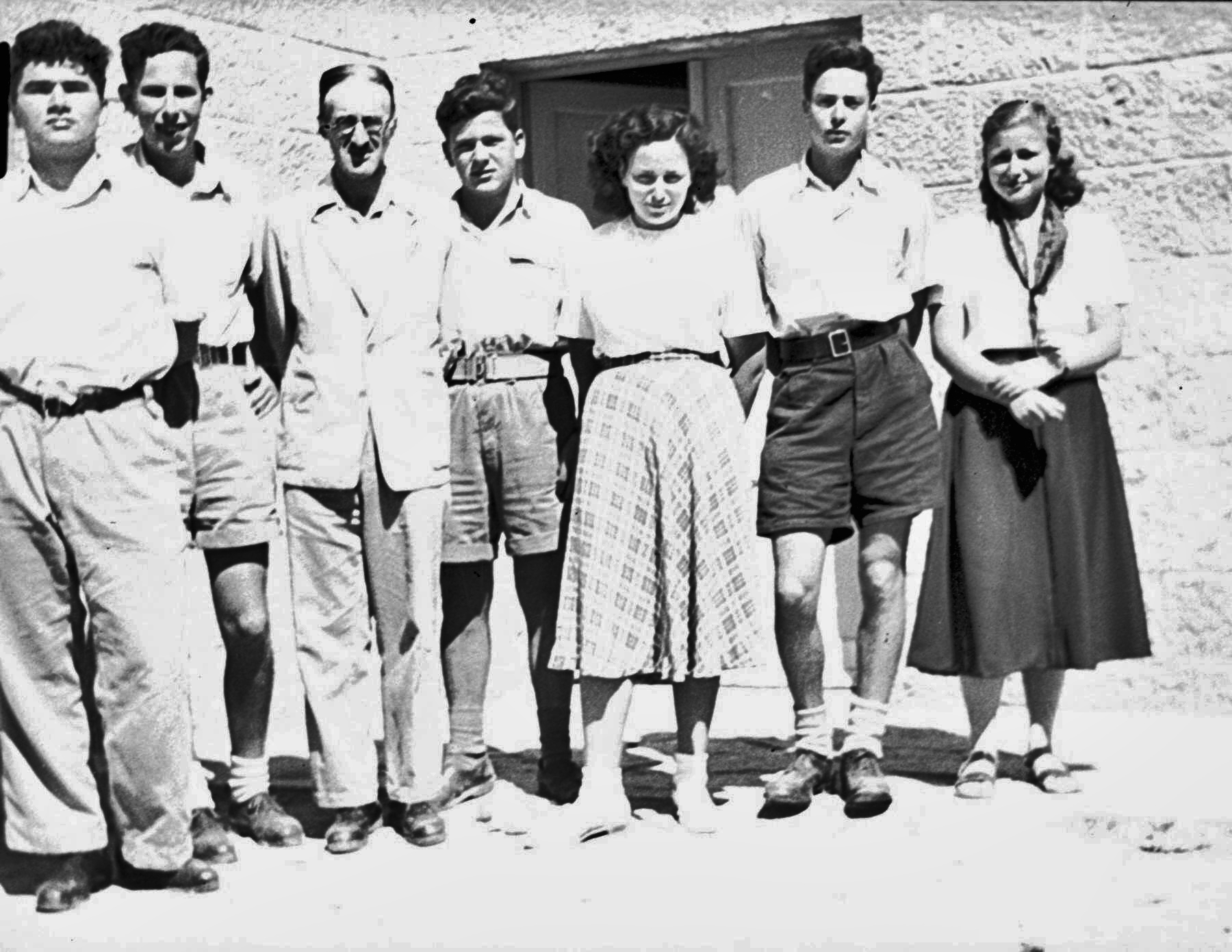 The Teacher (later Professor) Yeshayahu Leibowitz with high school students Beit Hakerem high school